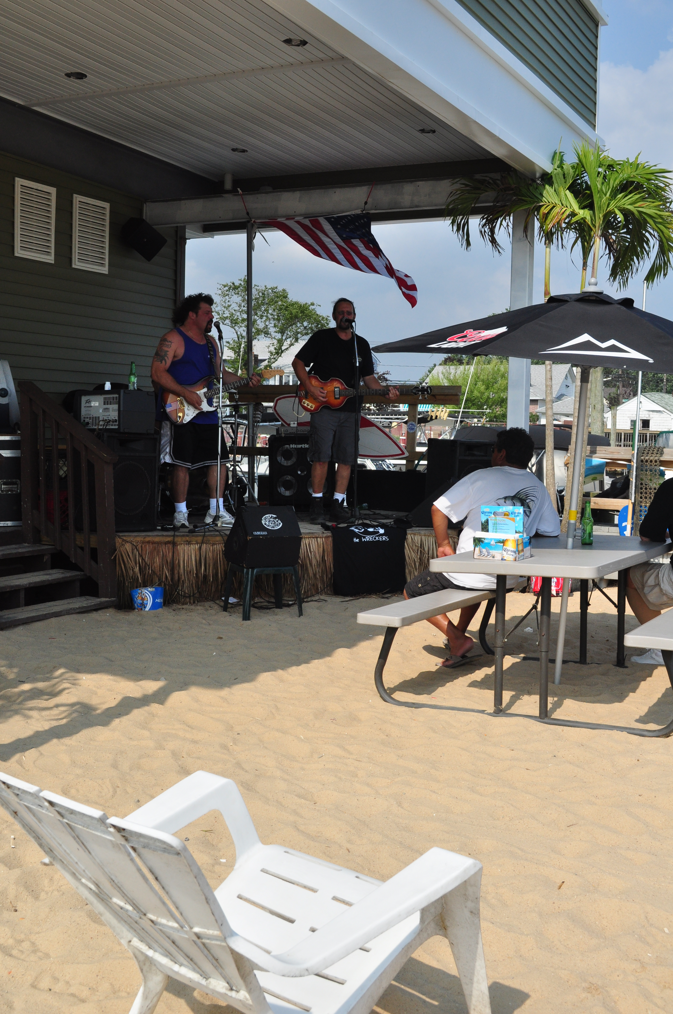 Playing music on the patio of The Bamboo, a bar on the Nautical Mile, Freeport, New York.